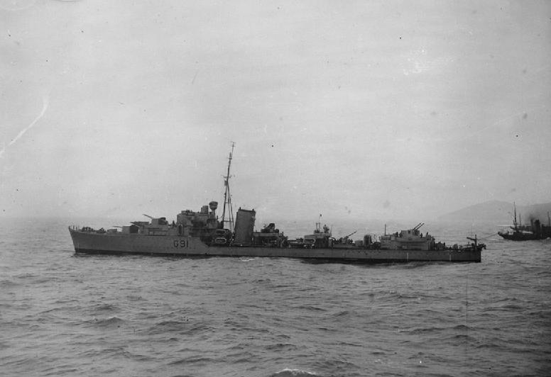 Photograph of British destroyer HMS Kipling